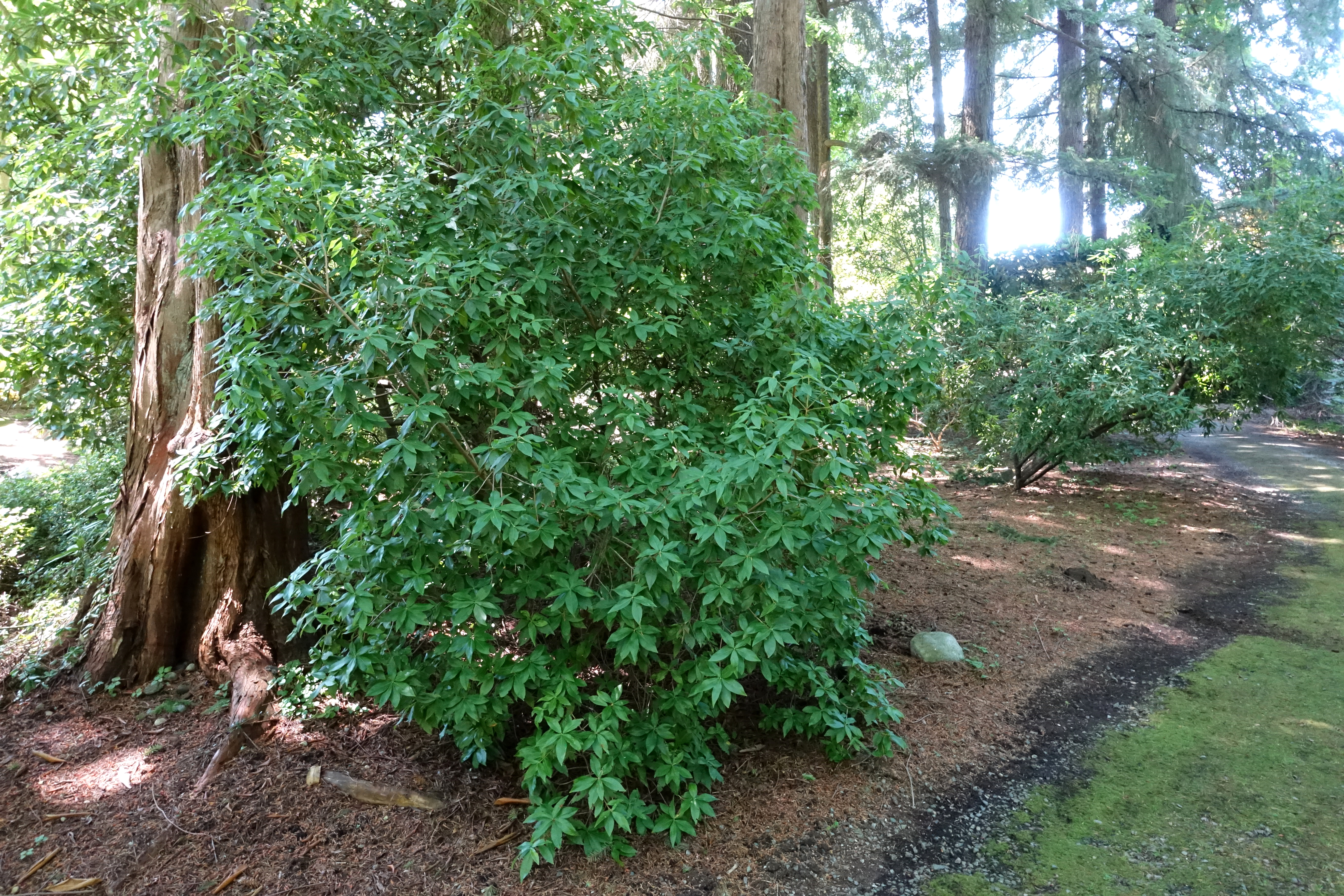 Botanical specimen in the VanDusen Botanical Garden - Vancouver, BC, Canada.